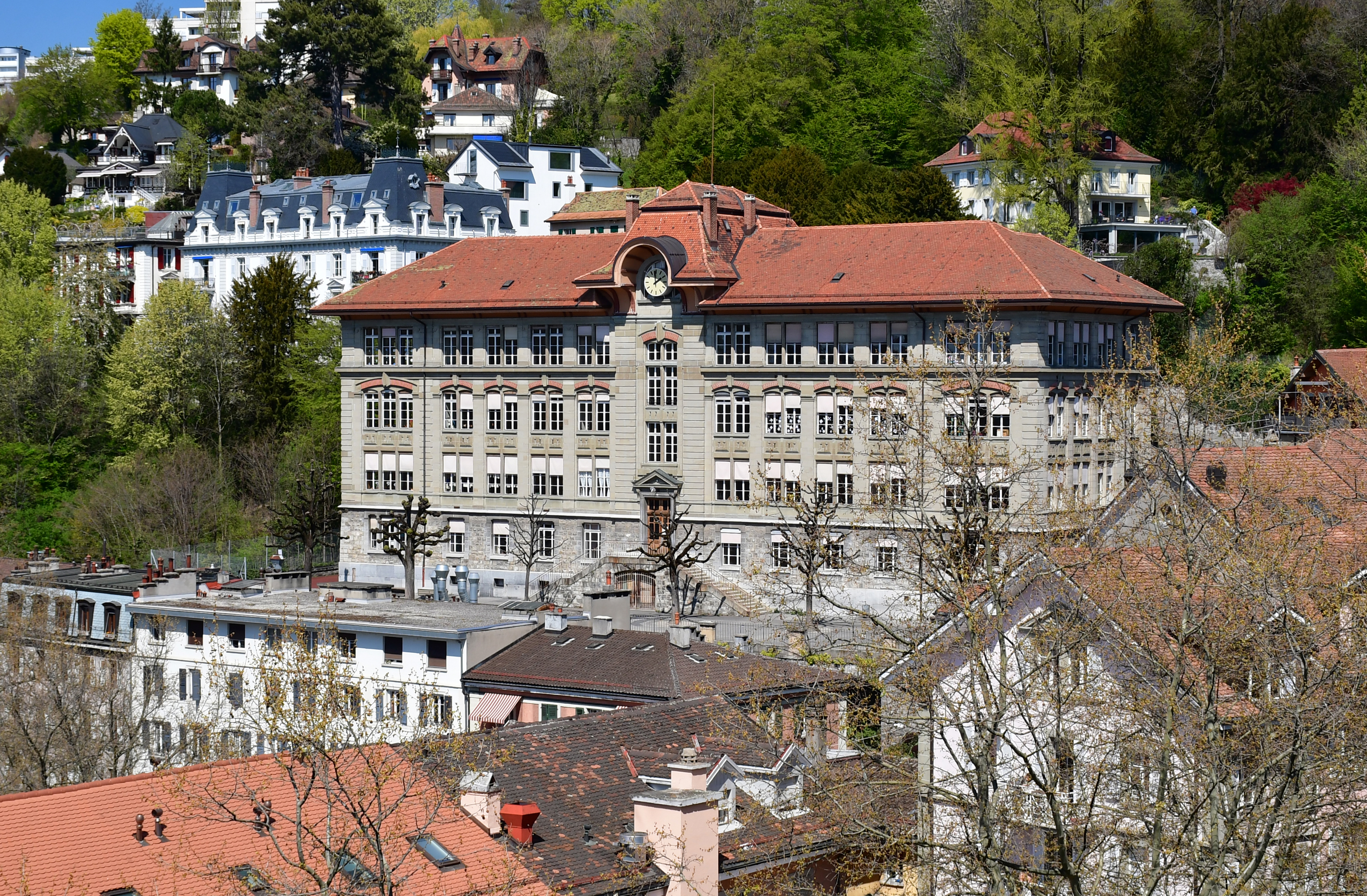 The Barre college, an elementary school of Lausanne (Switzerland).